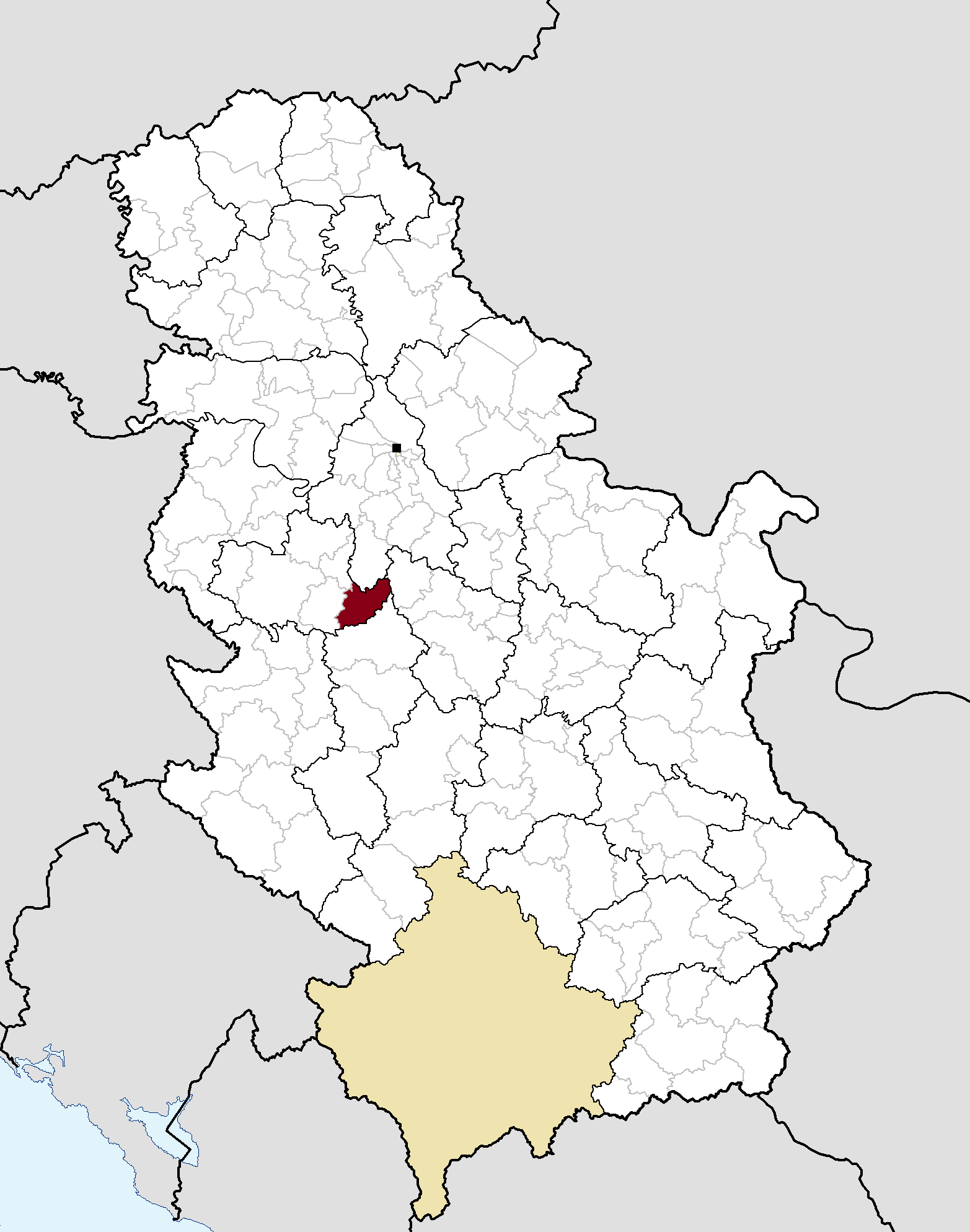 Municipal location in Serbia